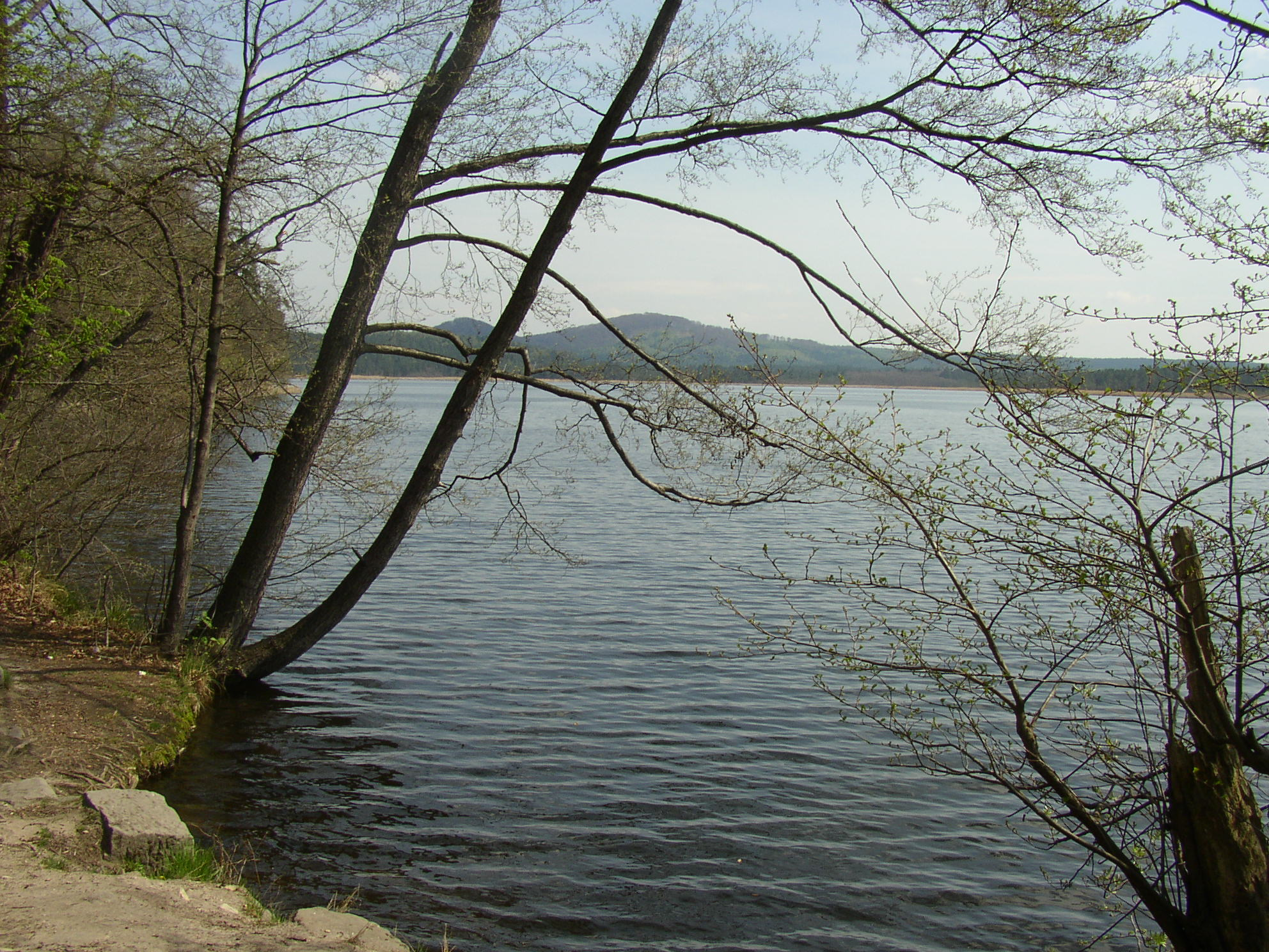 Břehyňský rybník (Břehyně Pond) within Břehyně - Pecopala National Nature Reserve east of Doksy town, Česká Lípa District, Czech Republic.